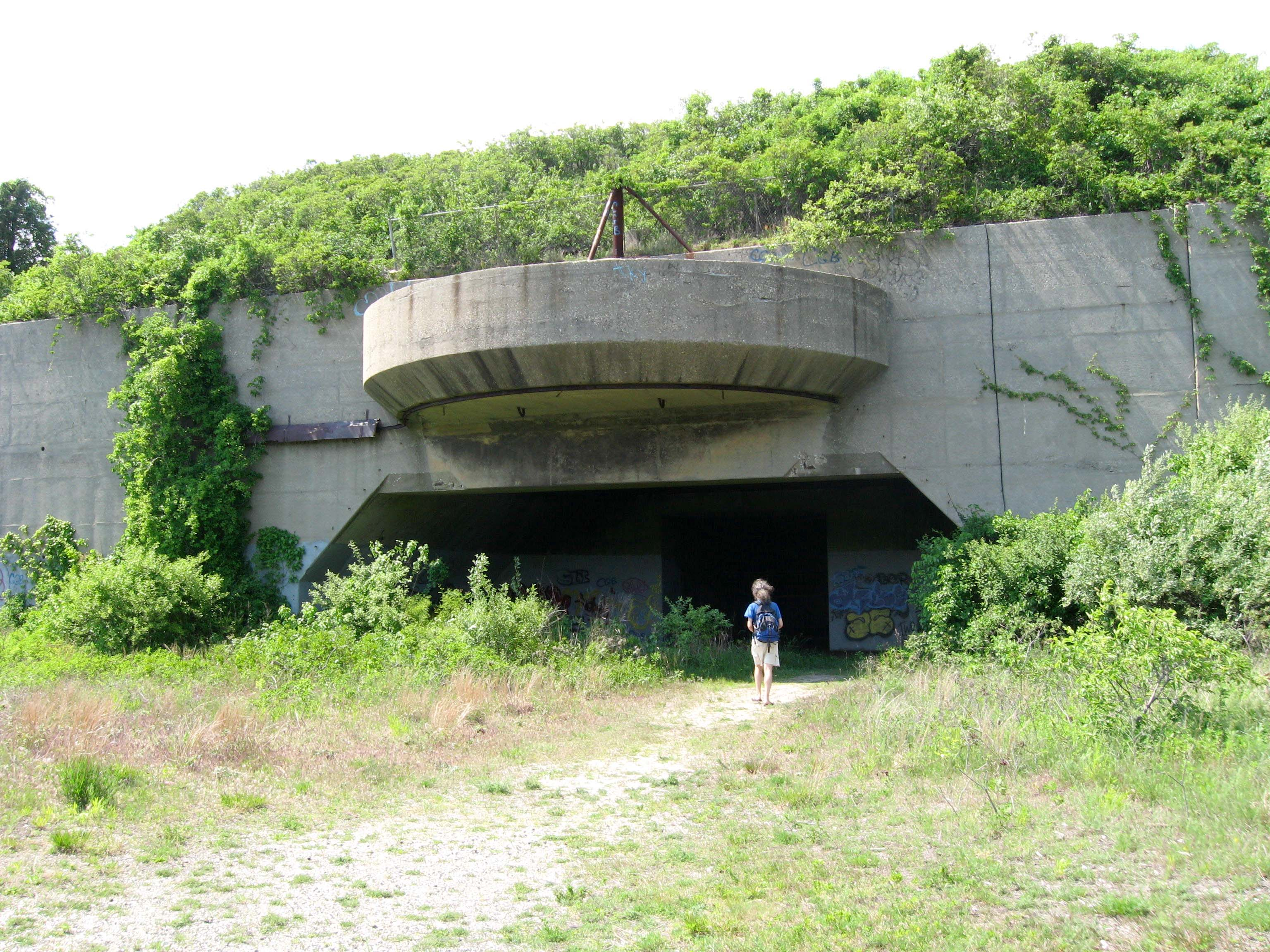 Looking northwest at an empty East Battery Harris 16-inch gun emplacement in Fort Tilden on a sunny afternoon